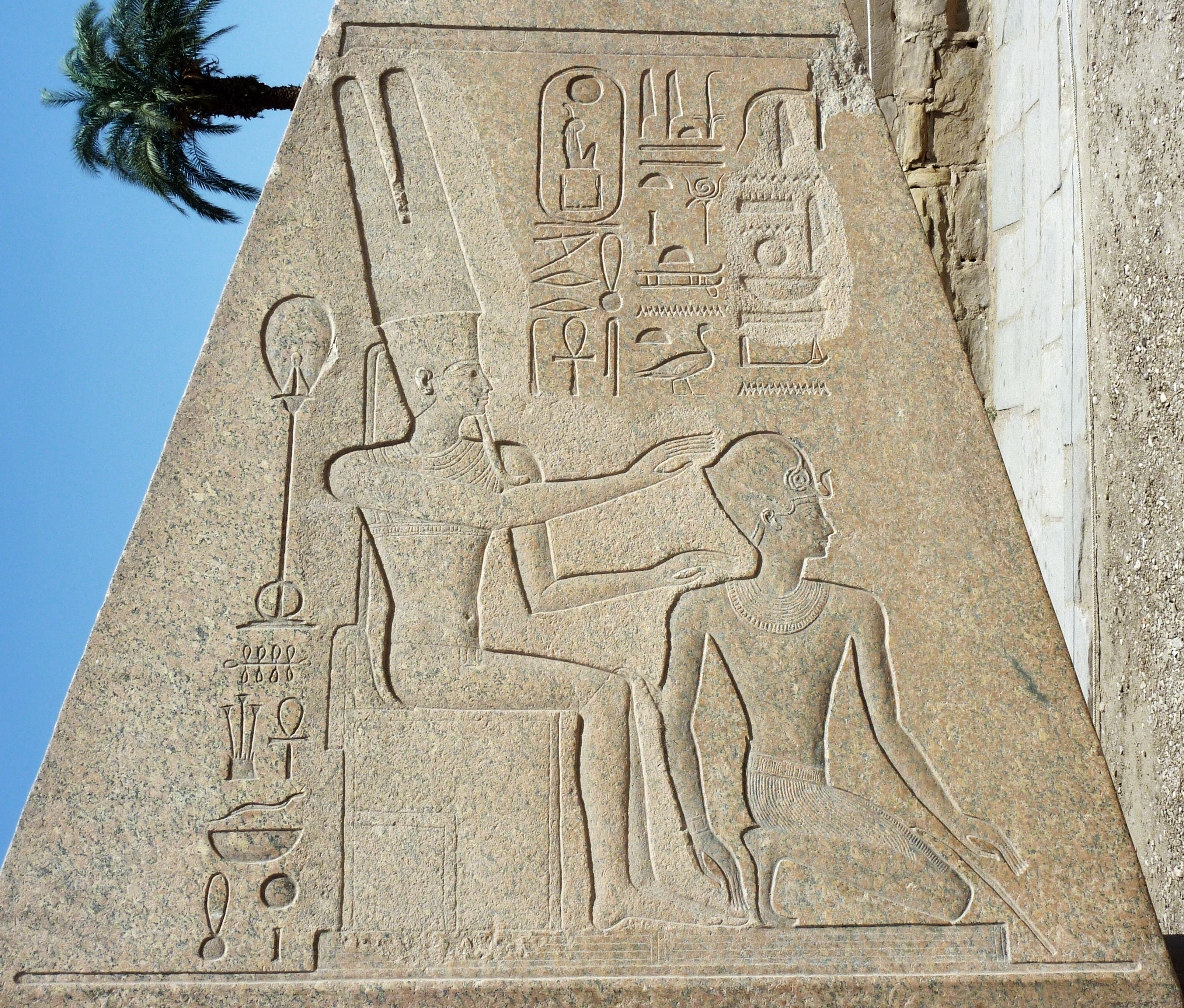 Hatshepsut kneels before Amun. An inscription of Hatshepsut on the pyramidion of a granite obelisk from Karnak temple. The now fallen piece of obelisk lies at the north-west corner of the sacred lake.